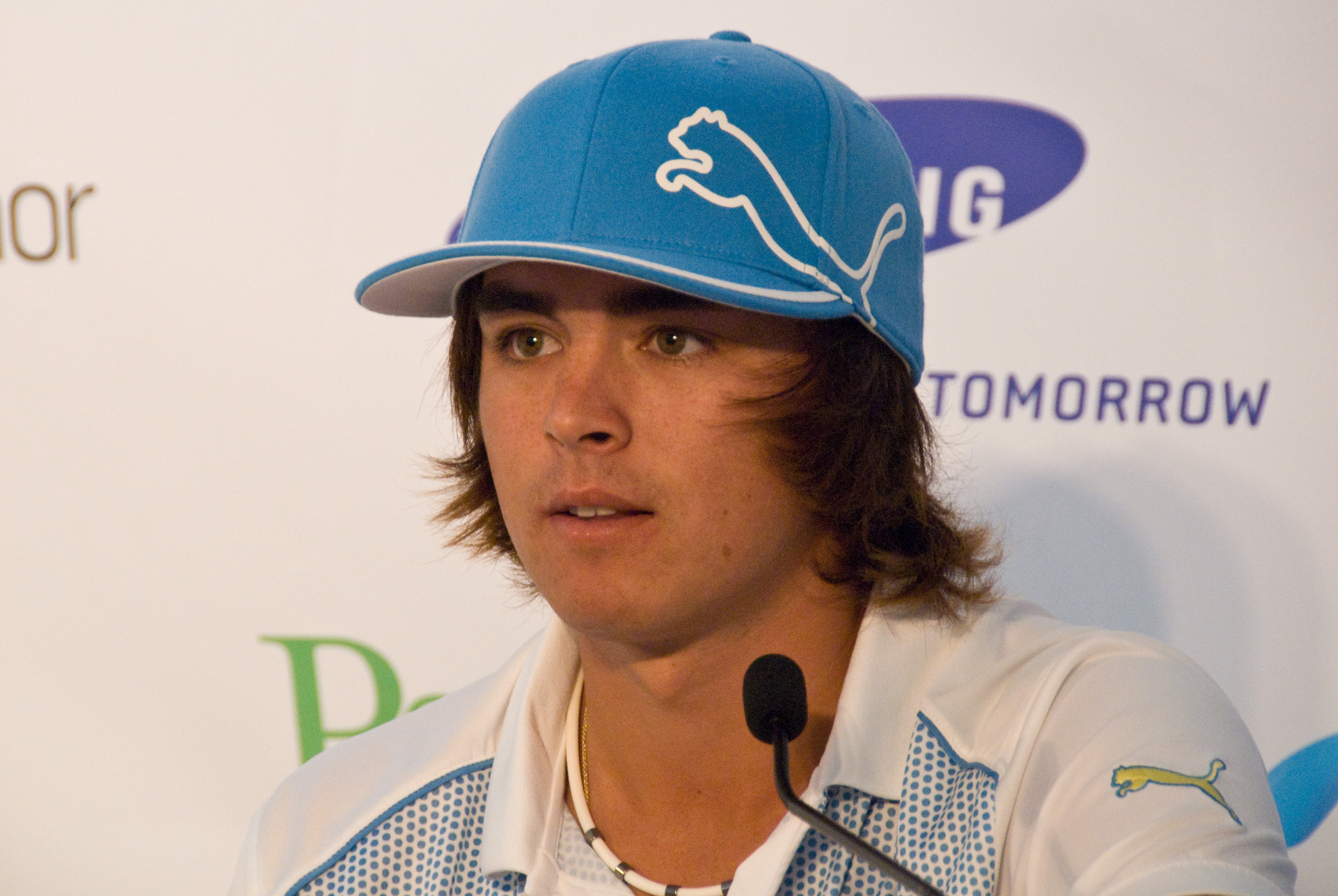 Rickie Fowler at Nordea Scandinavian Masters 2010 press conference